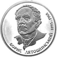 Coin of Ukraine